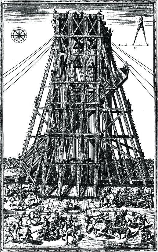 Lowering of the Vatican Obelisk by Domenico Fontana in 1586, in order to relocate it to its current location on Saint Peter's Square.